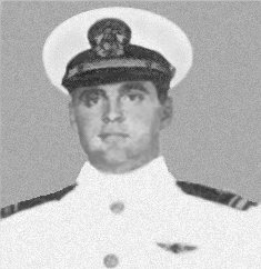 George Thomas Coker a few months before his capture in North Vietnam, May 1966. Other versions: 80px 80px